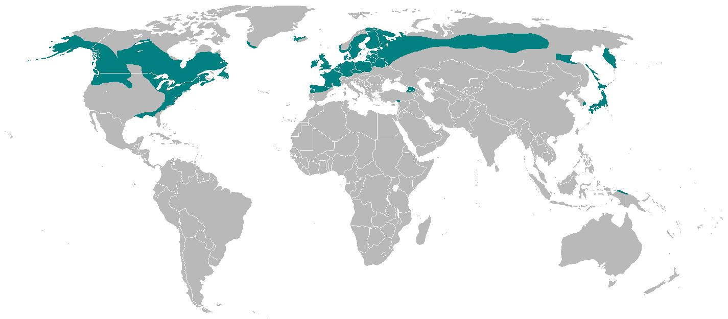 Distribution Drosera rotundifolia